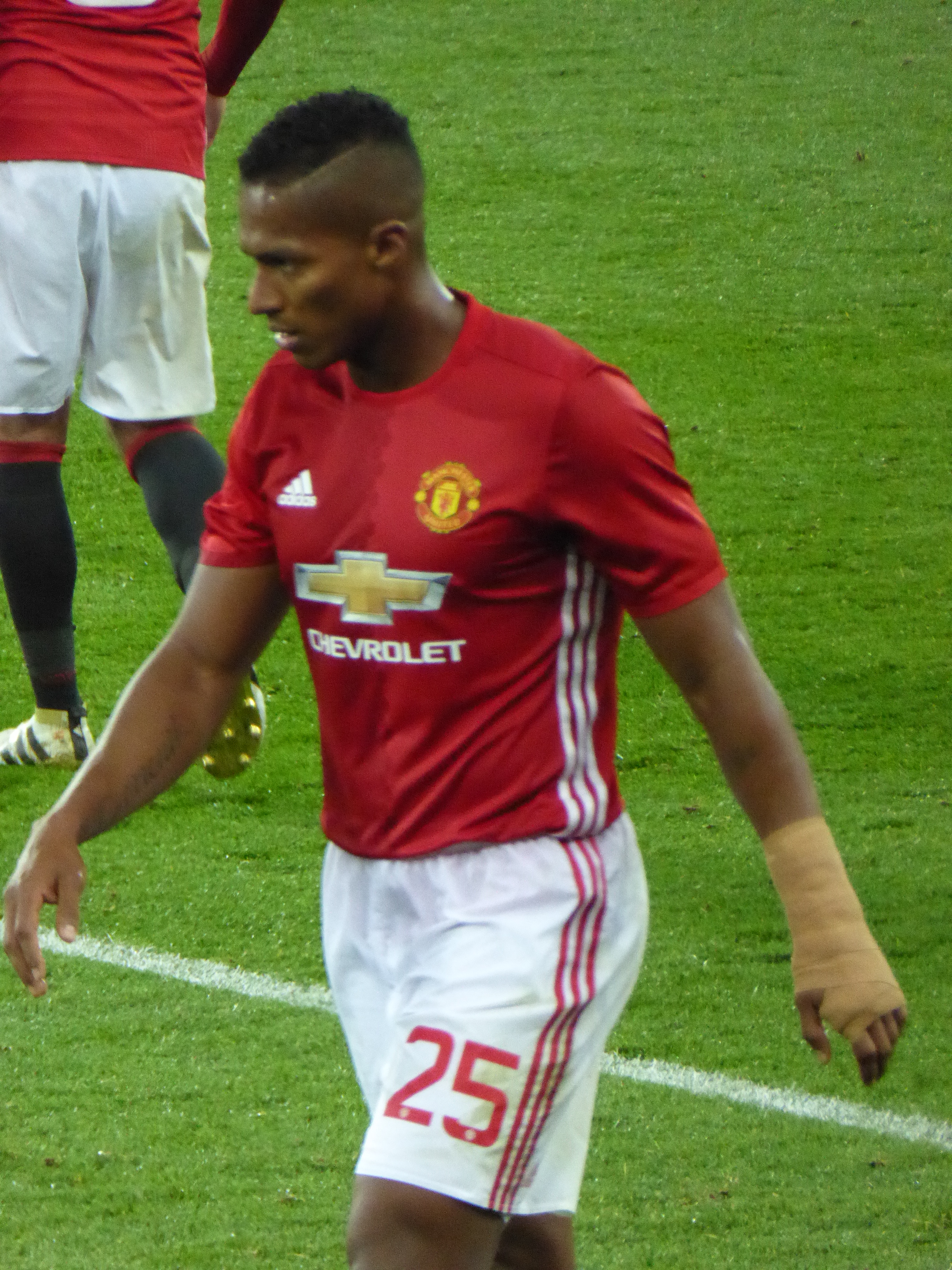 Manchester United v Manchester City (1-0), EFL Cup, Old Trafford, Manchester, Greater Manchester, England, October 2016